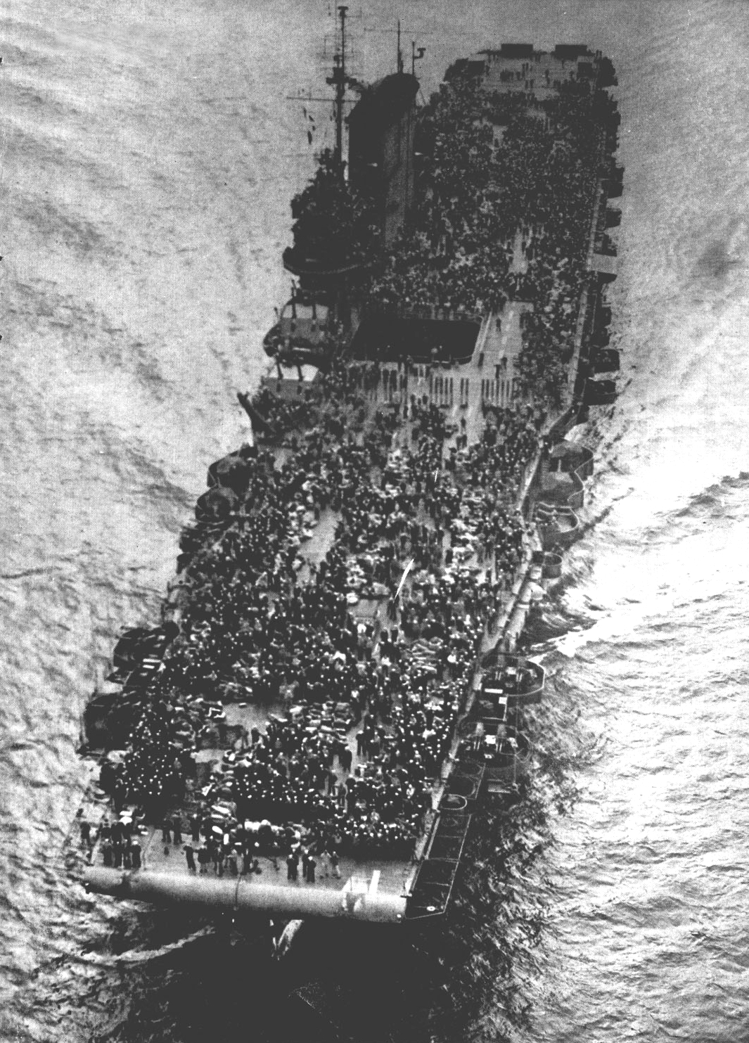 The U.S. Navy aircraft carrier USS Saratoga (CV-3) during her role as a troop transport in operation "Magic Carpet". By the end of her "Magic Carpet" service, Saratoga had brought home a total of 29,204 Pacific War veterans, more than any other individual ship.